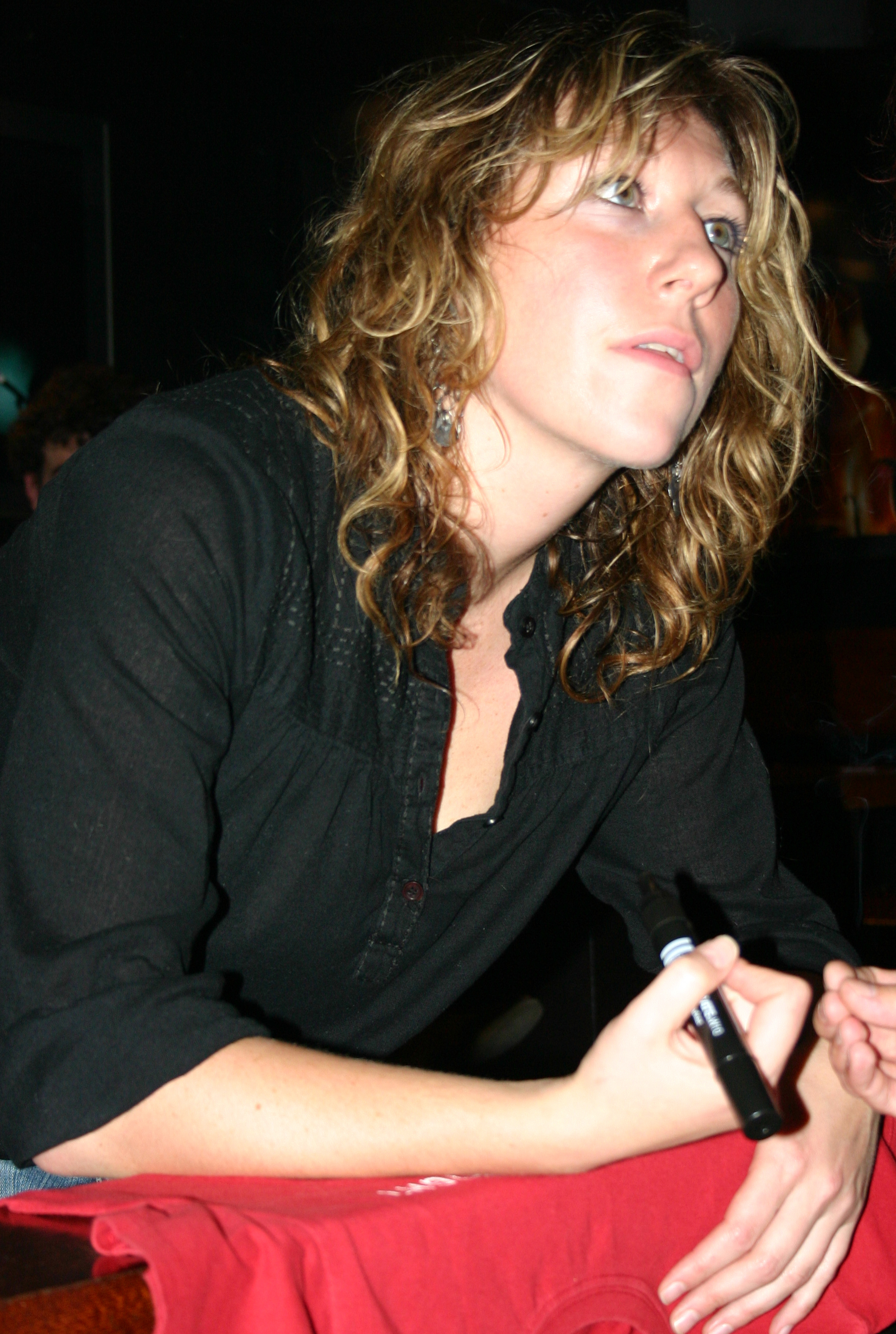 Martha Wainwright signing a T-shirt for a fan in Quasimodo-Club, Berlin, Germany